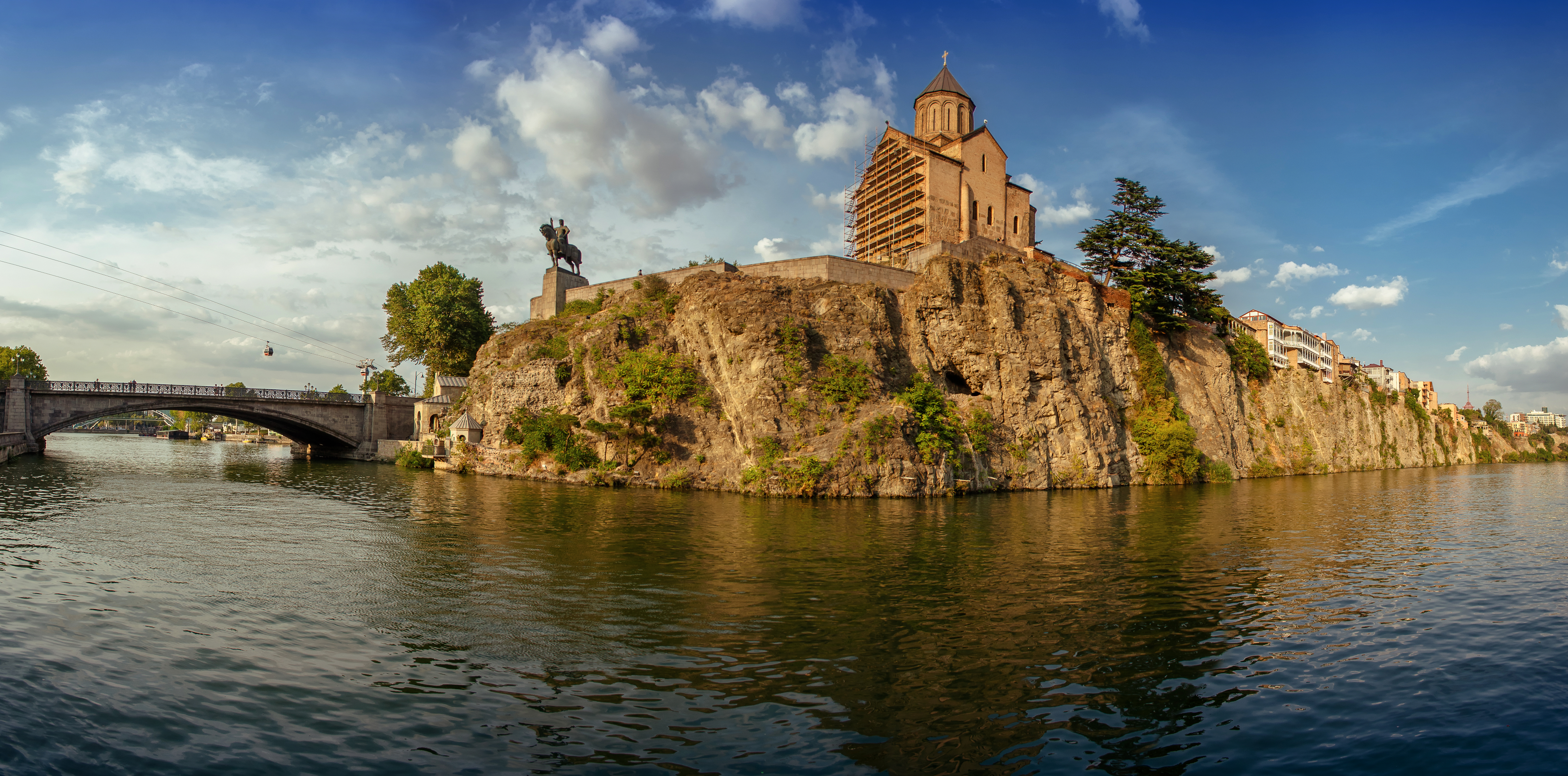 Metekhi Cathedral, Tbilisi, Georgia